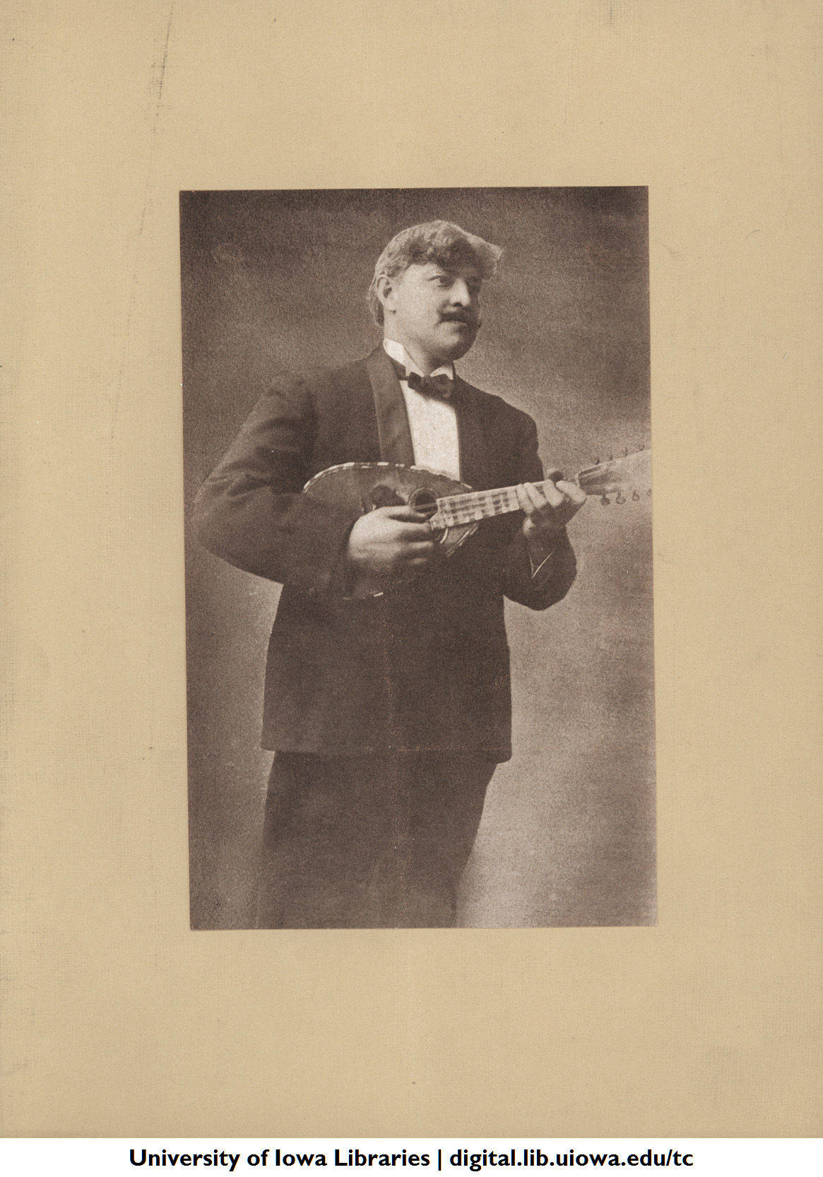 Portrait of musician W. Eugene Page playing mandolin. Other information An earlier publication of the image occurred in the magazine The Cadenza 1908 and The Cresendo 1909, which shows the image is definitely older than the 1920 or 1929 publication. Those earlier publications are shown at under the section W. Eugene Page. The image of The Cresendo shows the name of the photographer, Alex Holmes. Holmes was a St. Paul, Minnesota photographer in the 1890s (according to and